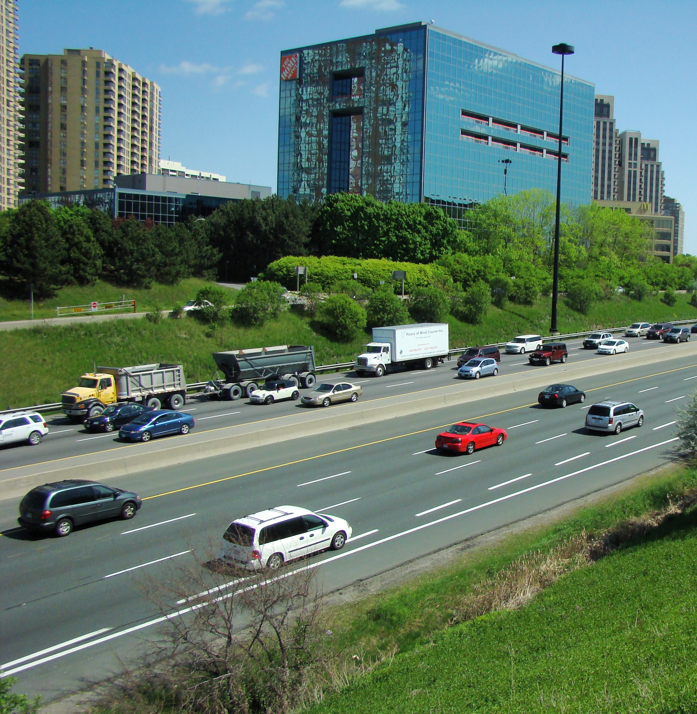 The Don Valley Parkway looking southwest. To the right is Wynford Drive and to the left is the Midtown CP rail tracks. The ramp onto the northbound DVP from Wynford Drive was built in 1989 by jacking a prefabricated concrete arch into the embankment. This was done without disruptions, and was the first example in North America of this technique.